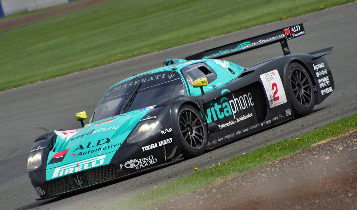 FIA GT Championship 7th May 2006 Silverstone Maserati MC12